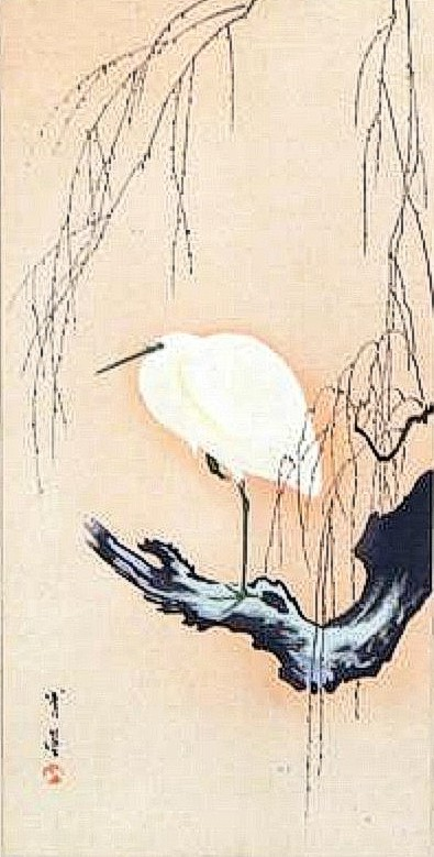 Heron on willow